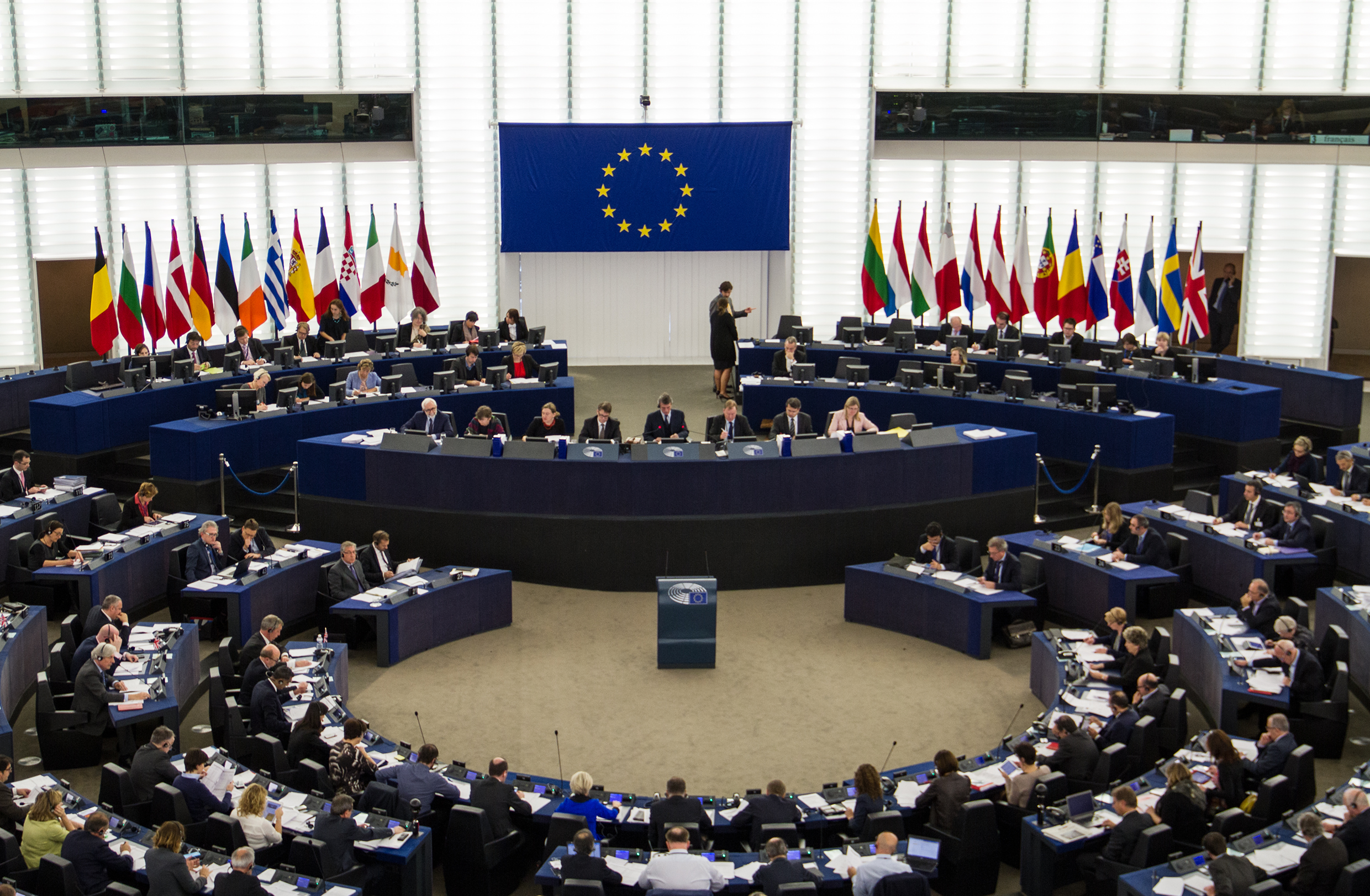 Hemicycle of the European Parliament in Strasbourg